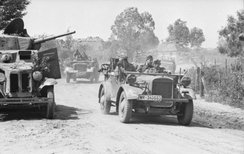 Car is le.gl. Einheits-PKW (typically Stoewer)